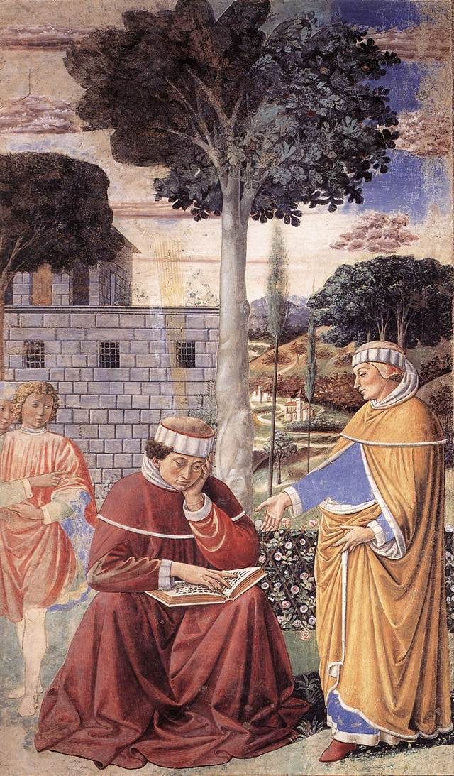 Conversion of Augustine of Hippo (Tolle Lege). St Augustine Reading the Epistle of St Paul.